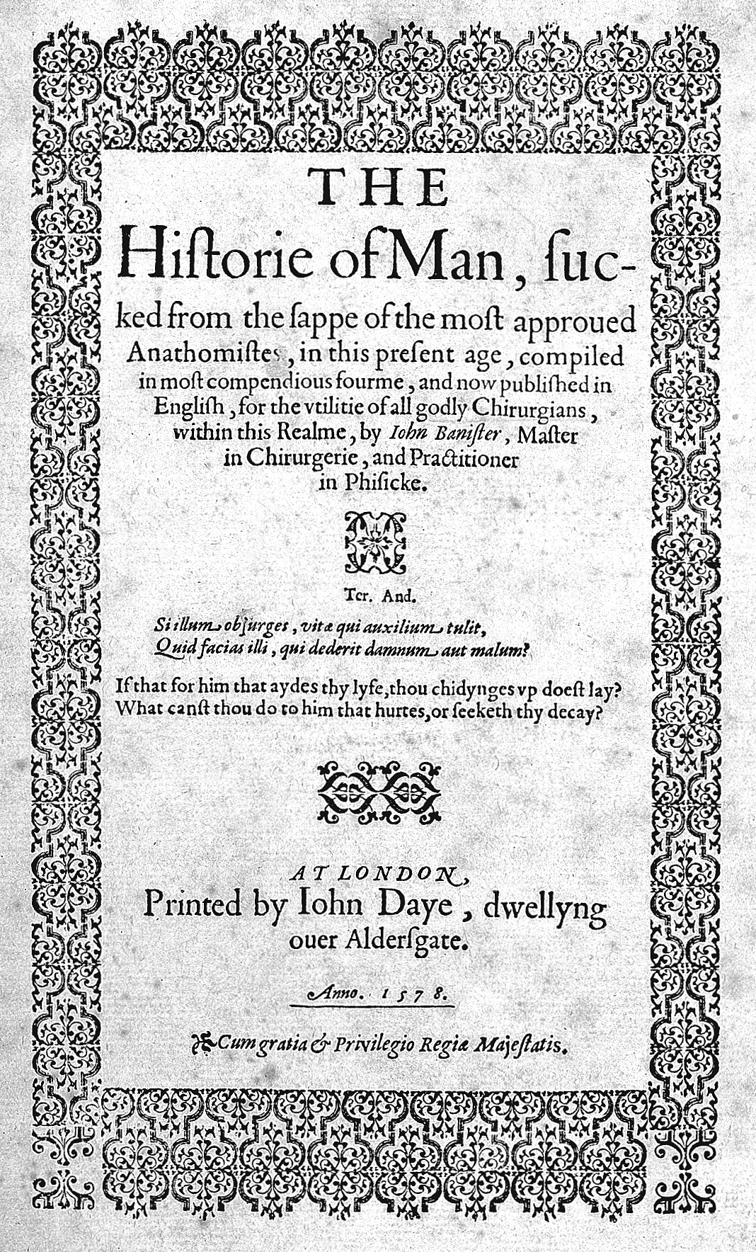 John Banister, The Historie of Man, 1578; title page Rare Books